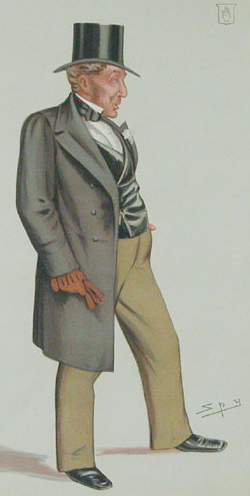 Caricature of Sir Daniel Gooch MP. Caption read "the Great Western".